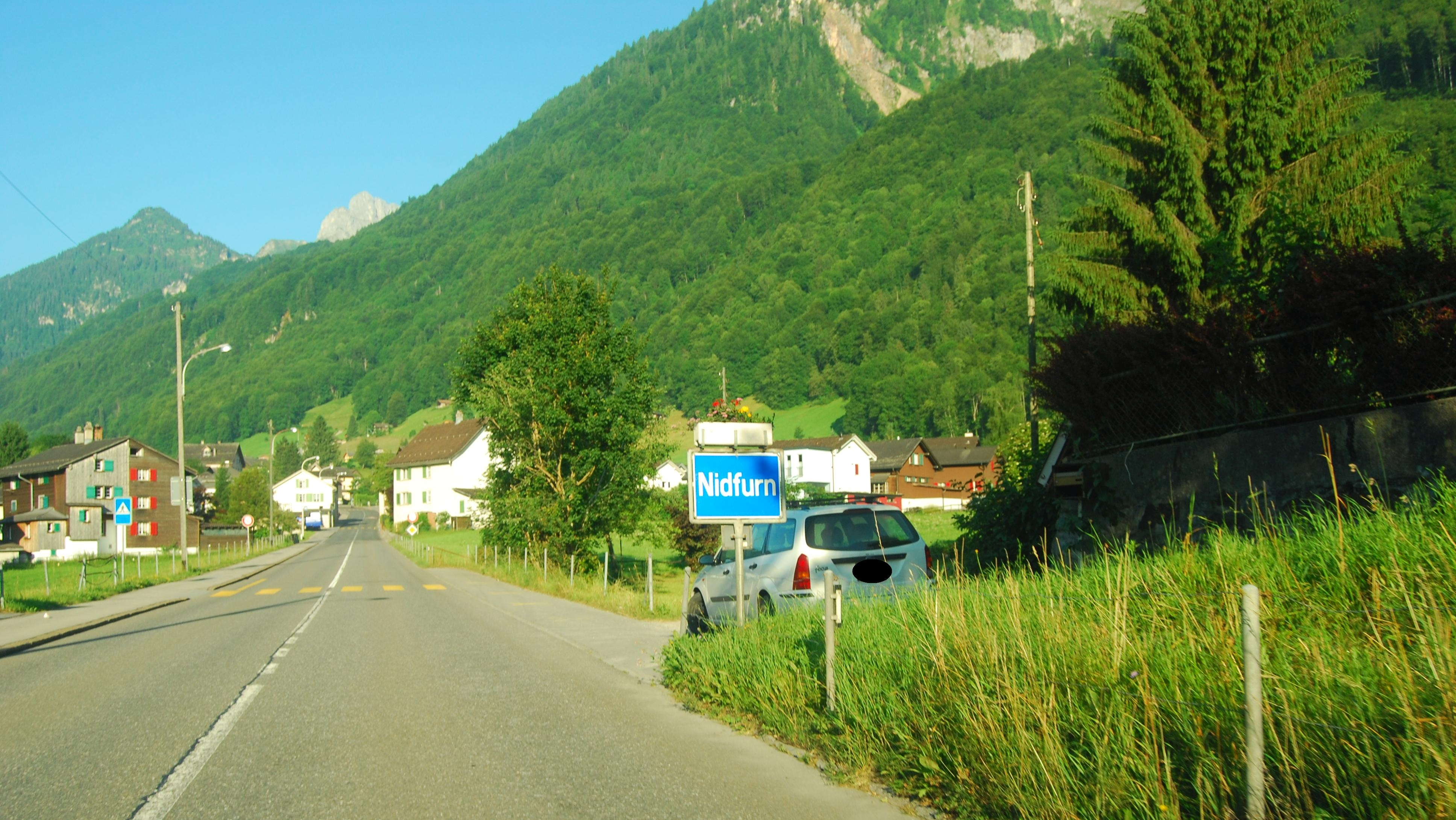 Village entry of Nidfurn, canton of Glarus, SwitzerlandEsperanto: Vilaĝeniro de Nidfurn, Kantono Glaruso, Svislando